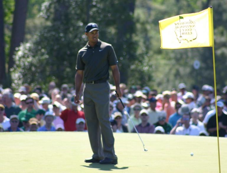 Tiger Woods during a practice round at the Masters